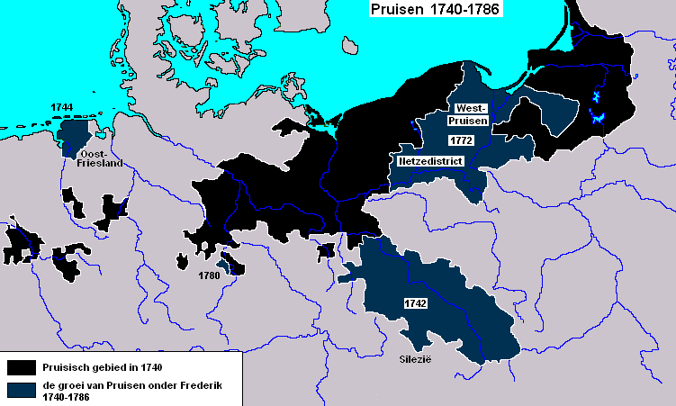 The growth of Prussia under Frederick II